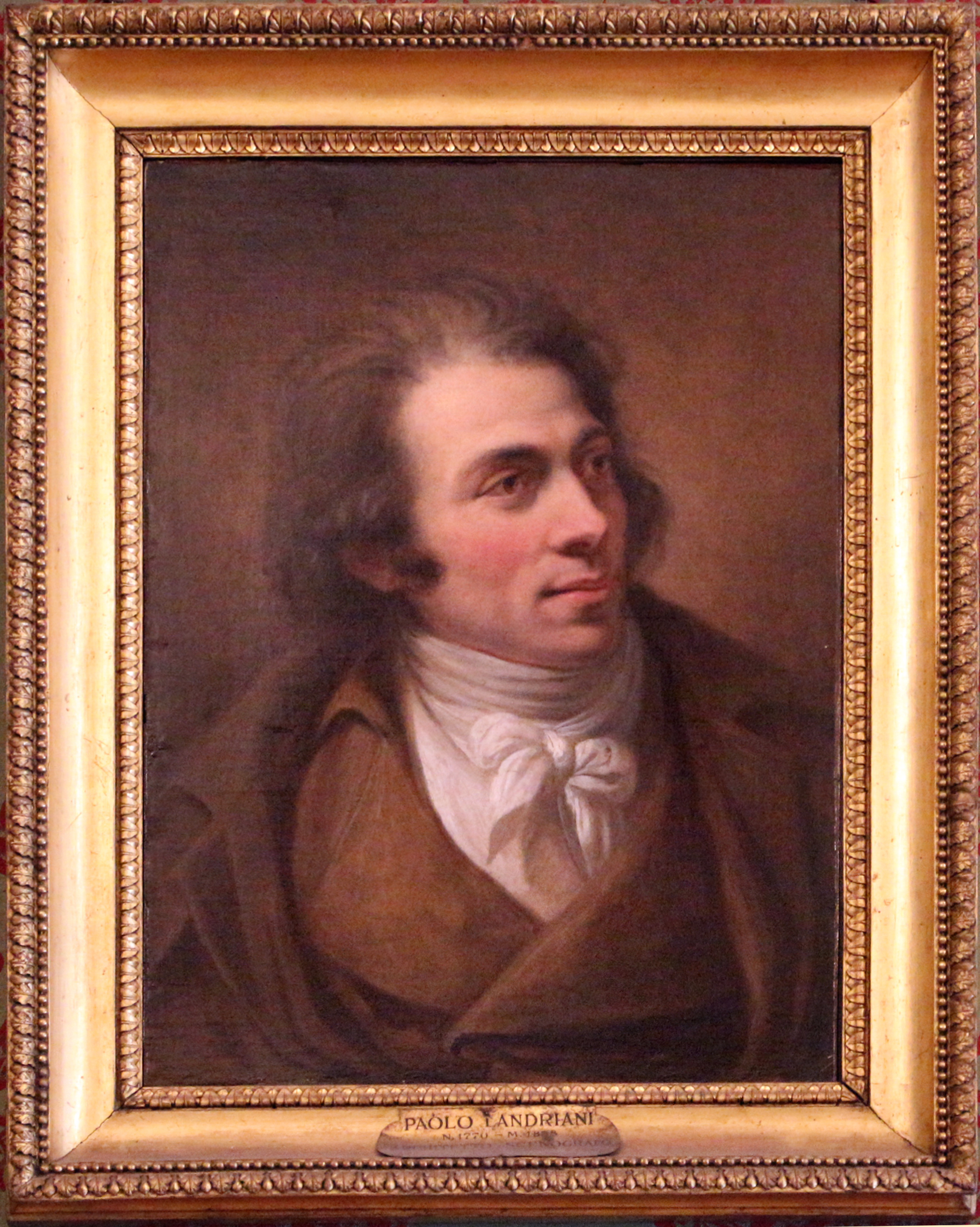 Museo del Teatro alla Scala (Milan)